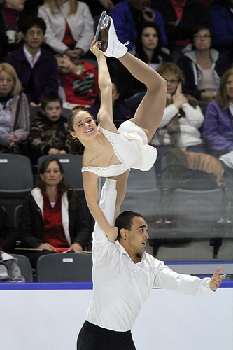 Britney Simpson / Nathan Miller at the 2010 Skate Canada International